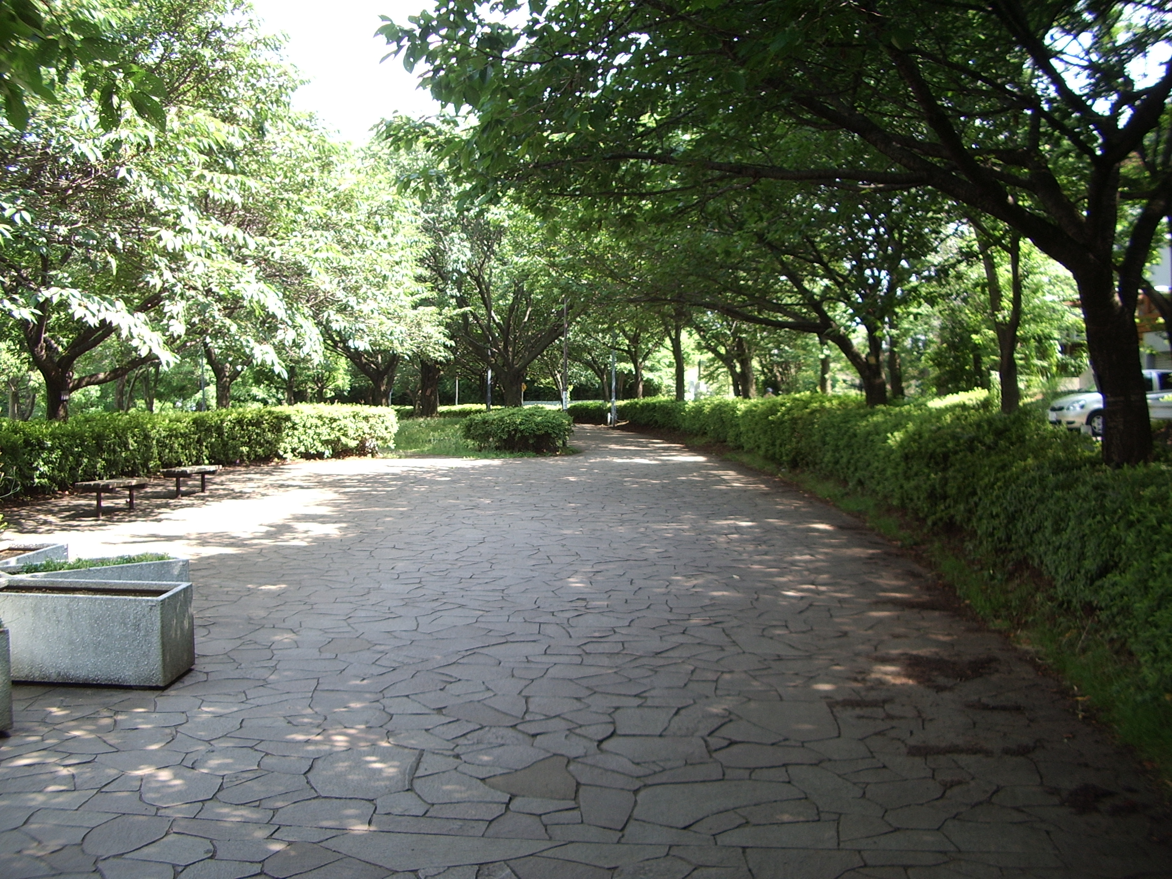 Oneryokudo, machida, Tokyo